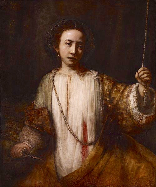 Painting by Rembrandt, painted 1666